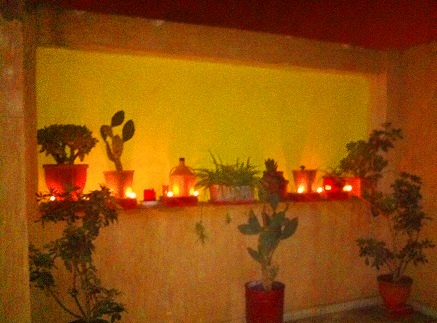 Artwork_Decoration_Home garden